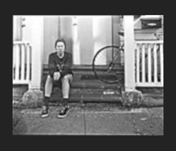 A photo of Kristi Bruce taken after shooting the short documentary, XXXY.